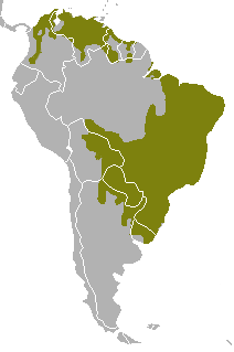 Crab-eating Fox range